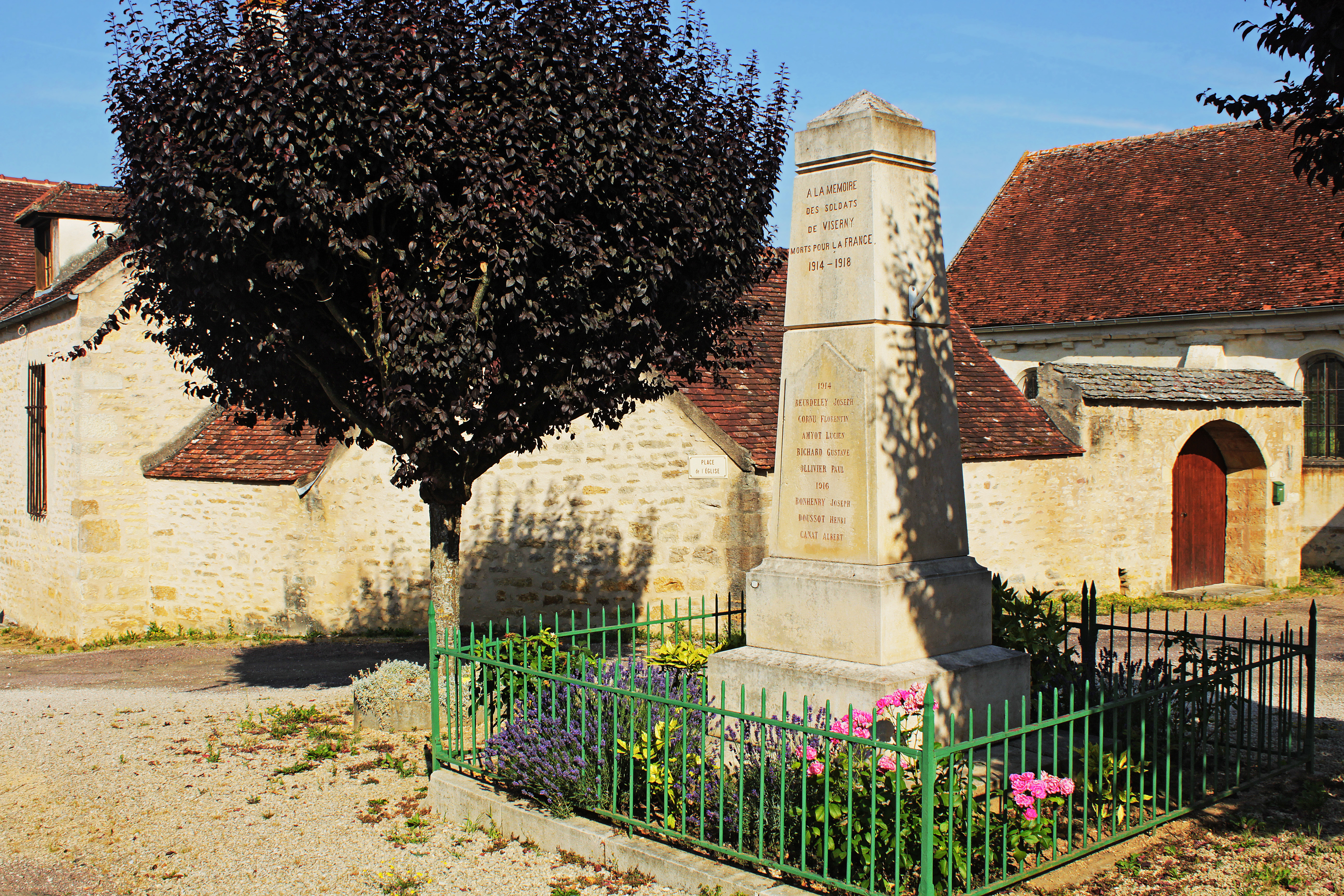 War memorial in Viserny